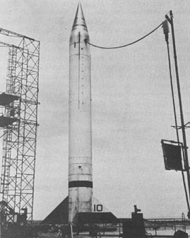 A Viking rocket on its launch pad, ca. 1949.